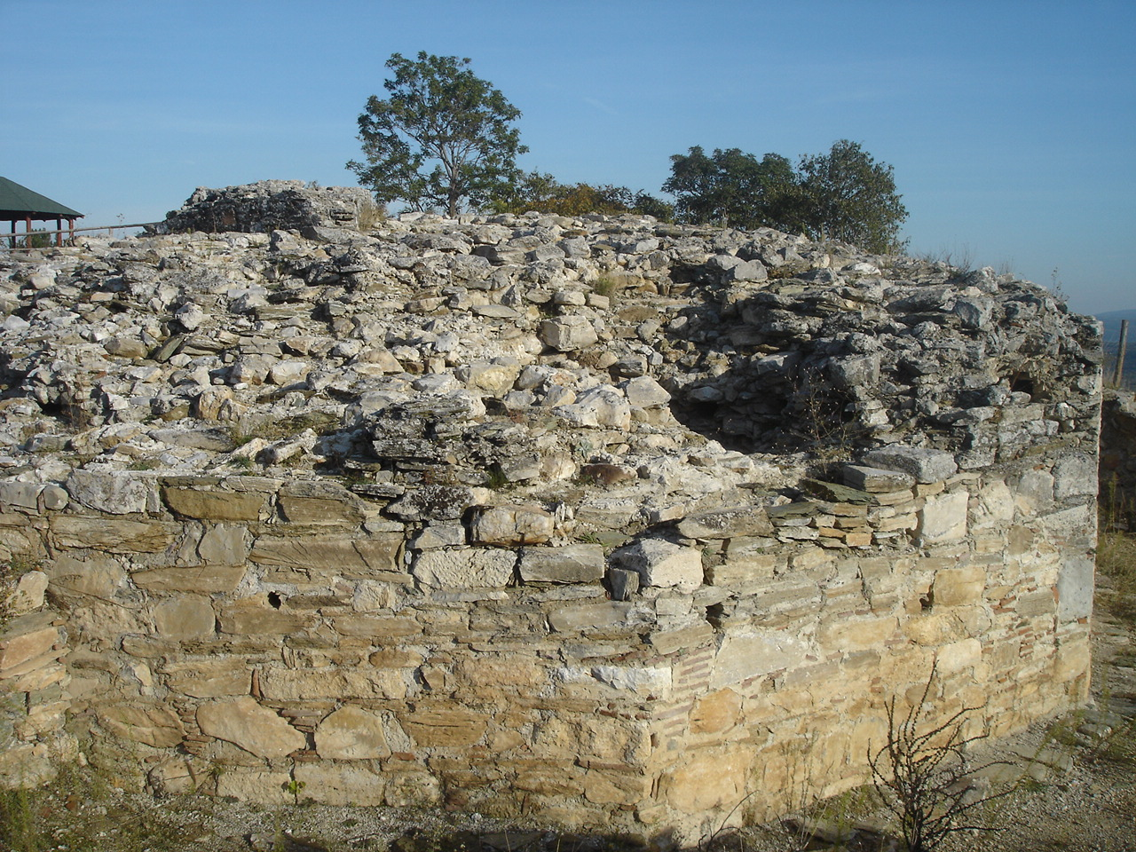 Remnants of the fortress Marko's Towers of Vodno mountain near Skopje, Macedonia